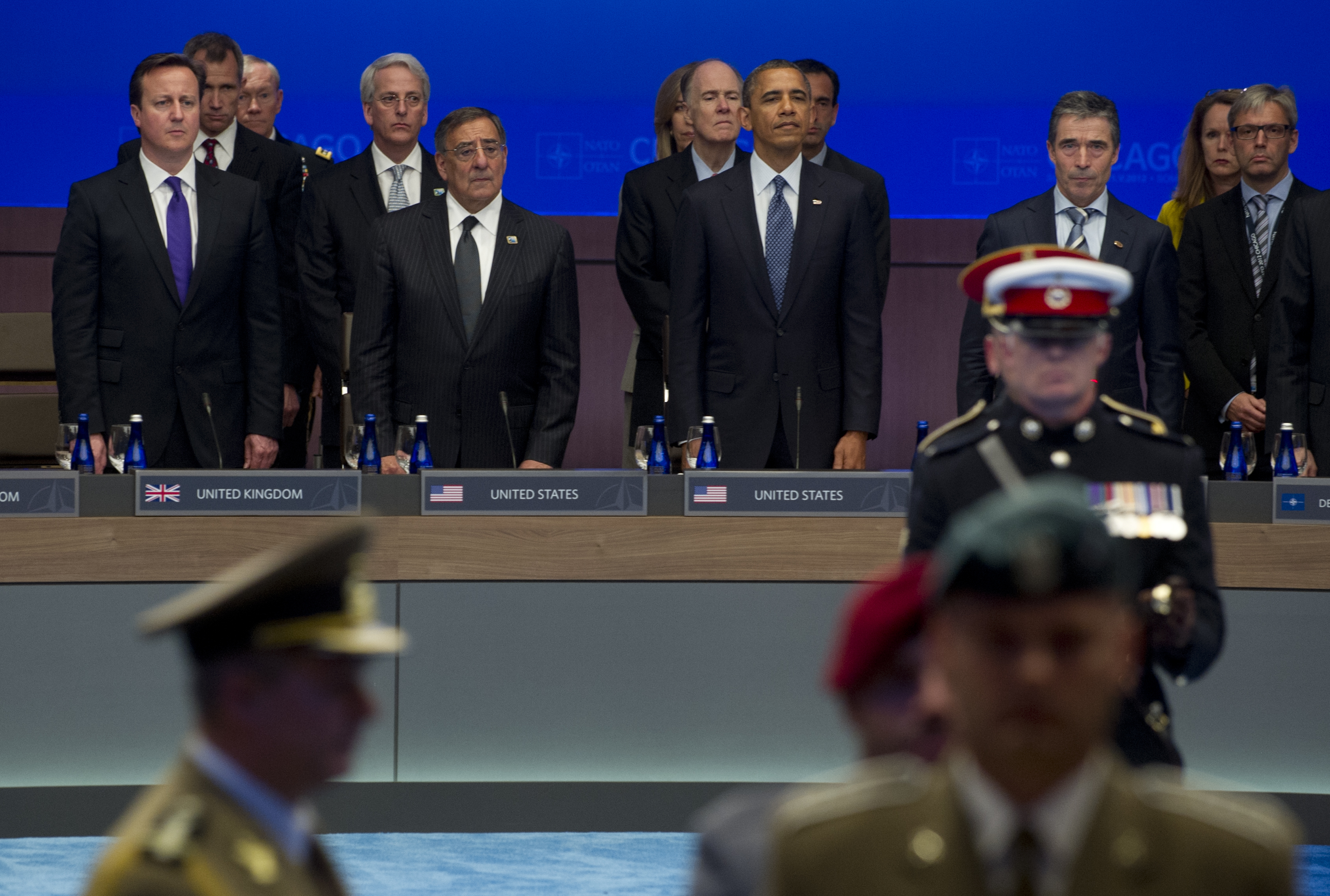 British Prime Minister David Cameron, Secretary of Defense Leon E. Panetta, President Barack Obama and NATO Secretary General Anders Fogh Rasmussen observe a NATO color guard prior to a moment of silence honoring those service members killed at wounded in Afghanistan at the NATO Summit in Chicago, Ill., May 20, 2012.